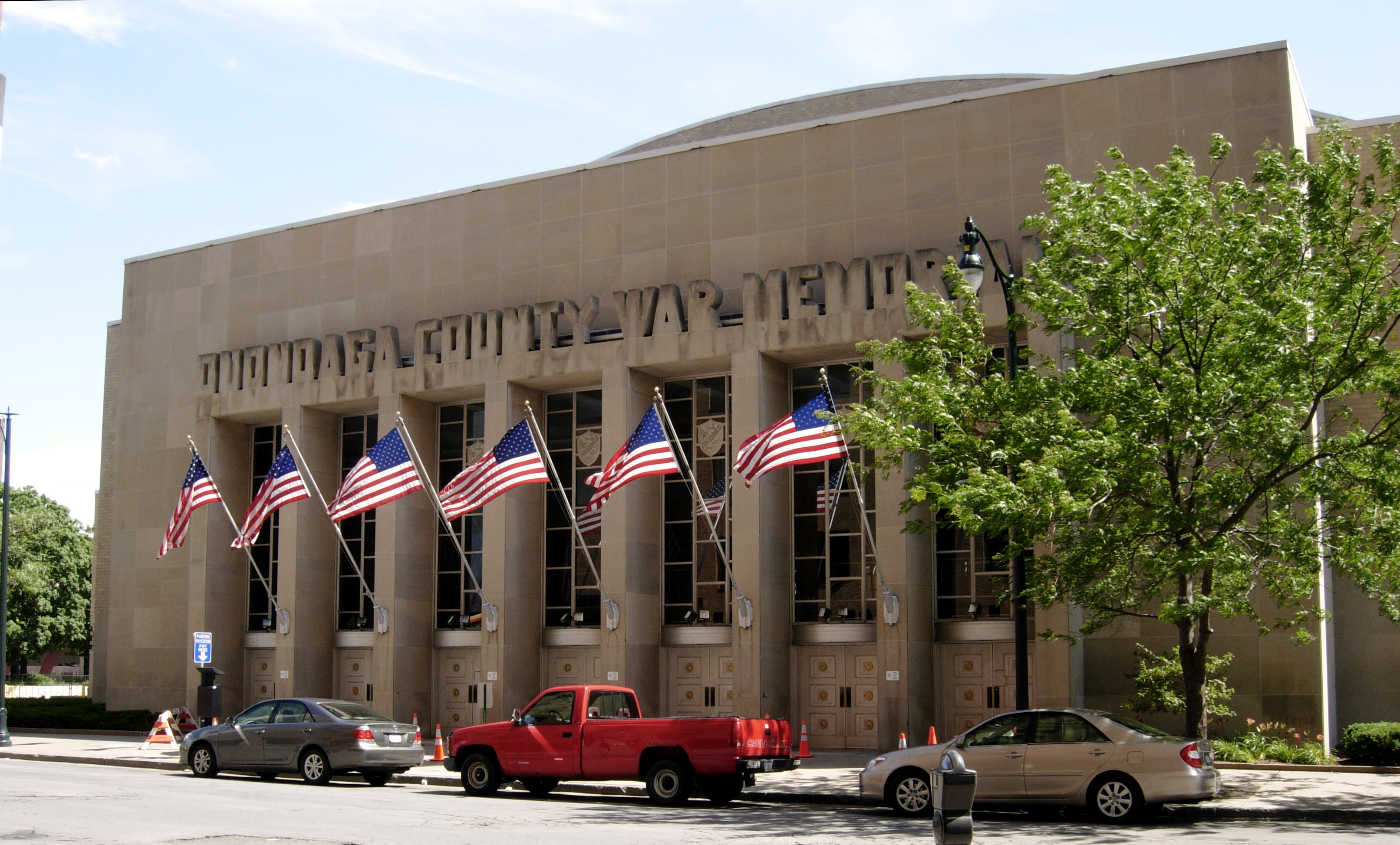 Side entrance of the Onondaga County War Memorial